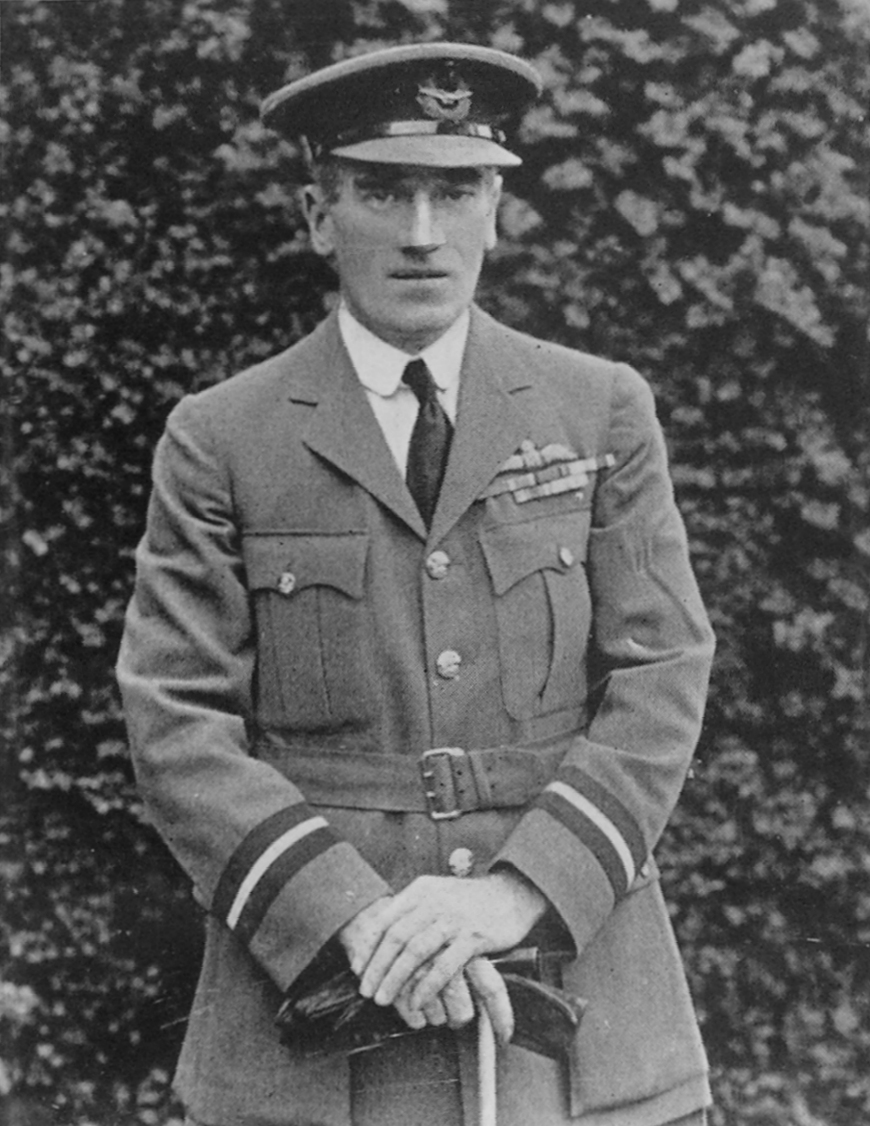 Air Commodore Francis Rowland Scarlett. This image is a digital reproduction of an original photograph which was taken between 1 Aug 1919 and 1 Jan 1924.